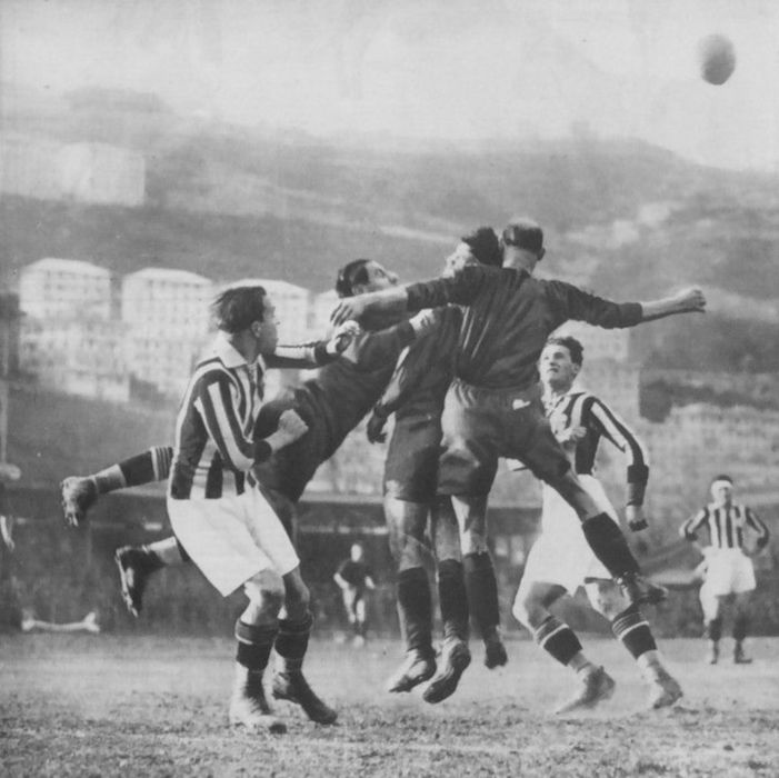 Genoa (Italy), Marassi Ground, December 5, 1926. Genoa C.F.C. — F.B.C. Juventus 1-2, Matchday 9 of the Italian Championship 1926–27 Divisione Nazionale, Group A: Juventus' goalkeeper Gianpiero Combi keeps ahead of the Genoa's forwards Dezső Gencsy (Gemsey) and Félix (Felice) Romano II.